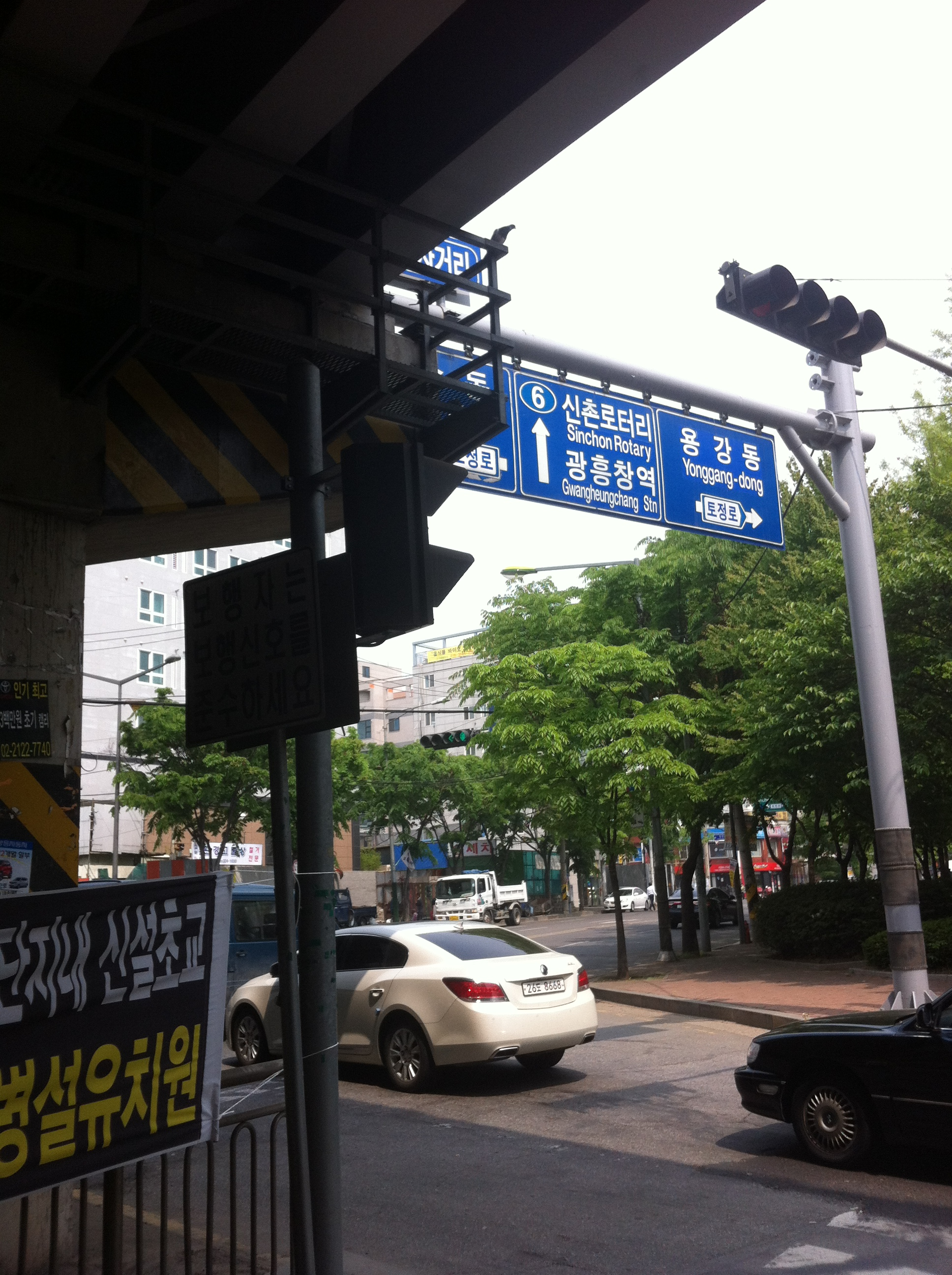 Biking in Seoul